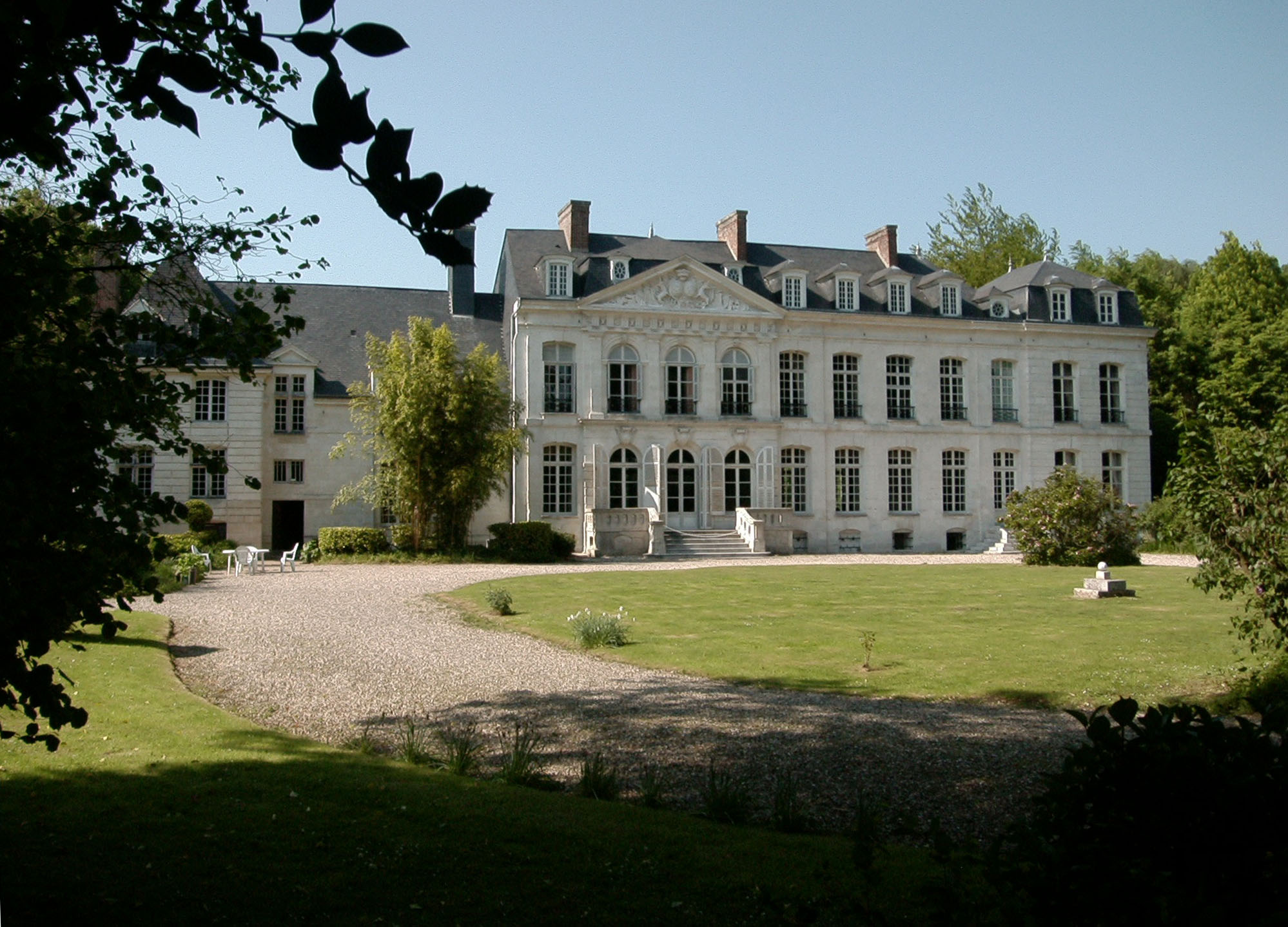 castle of Filières in Normandy